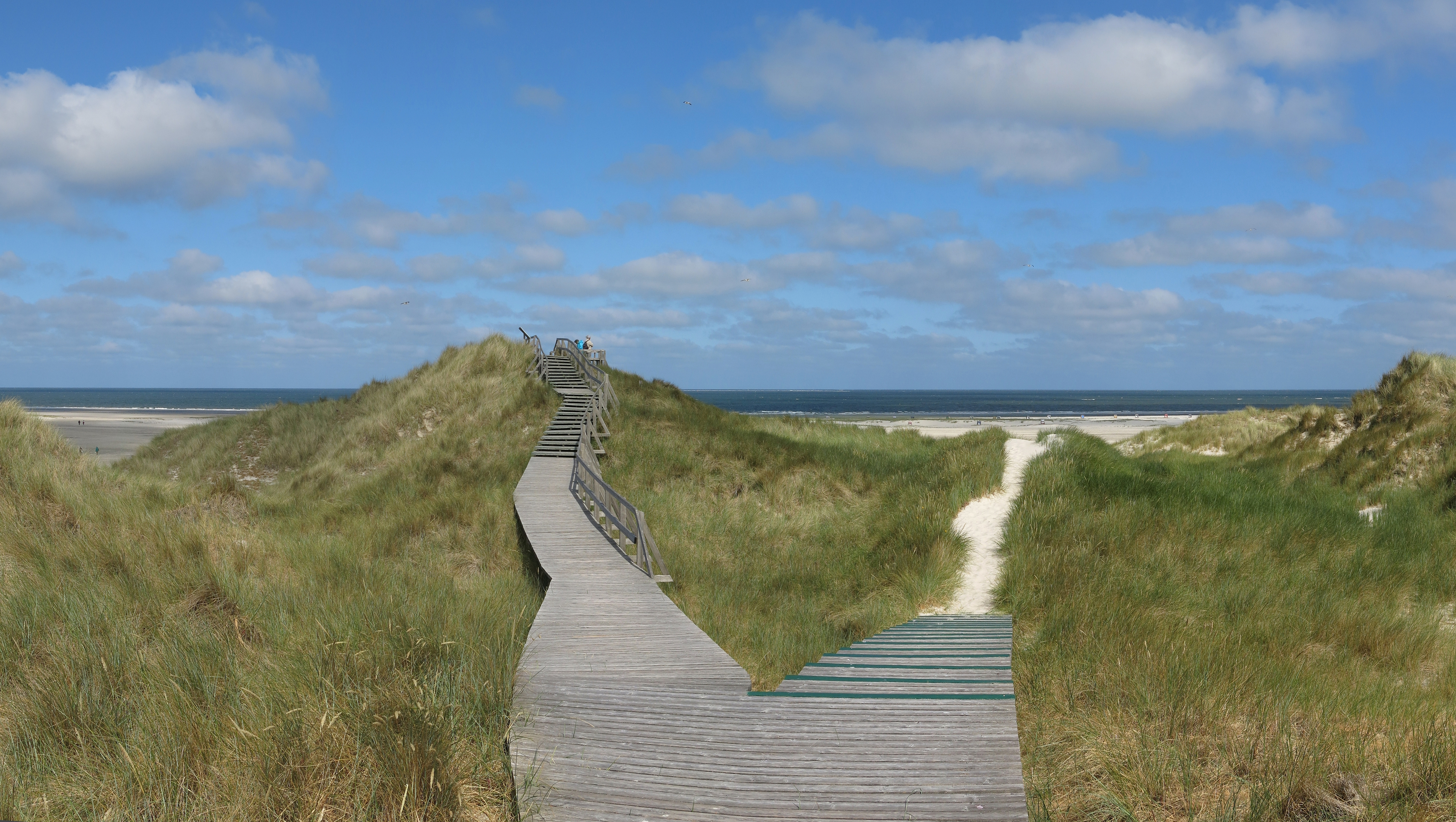 Way to the beach near Nordddorf on the island of Amrum.